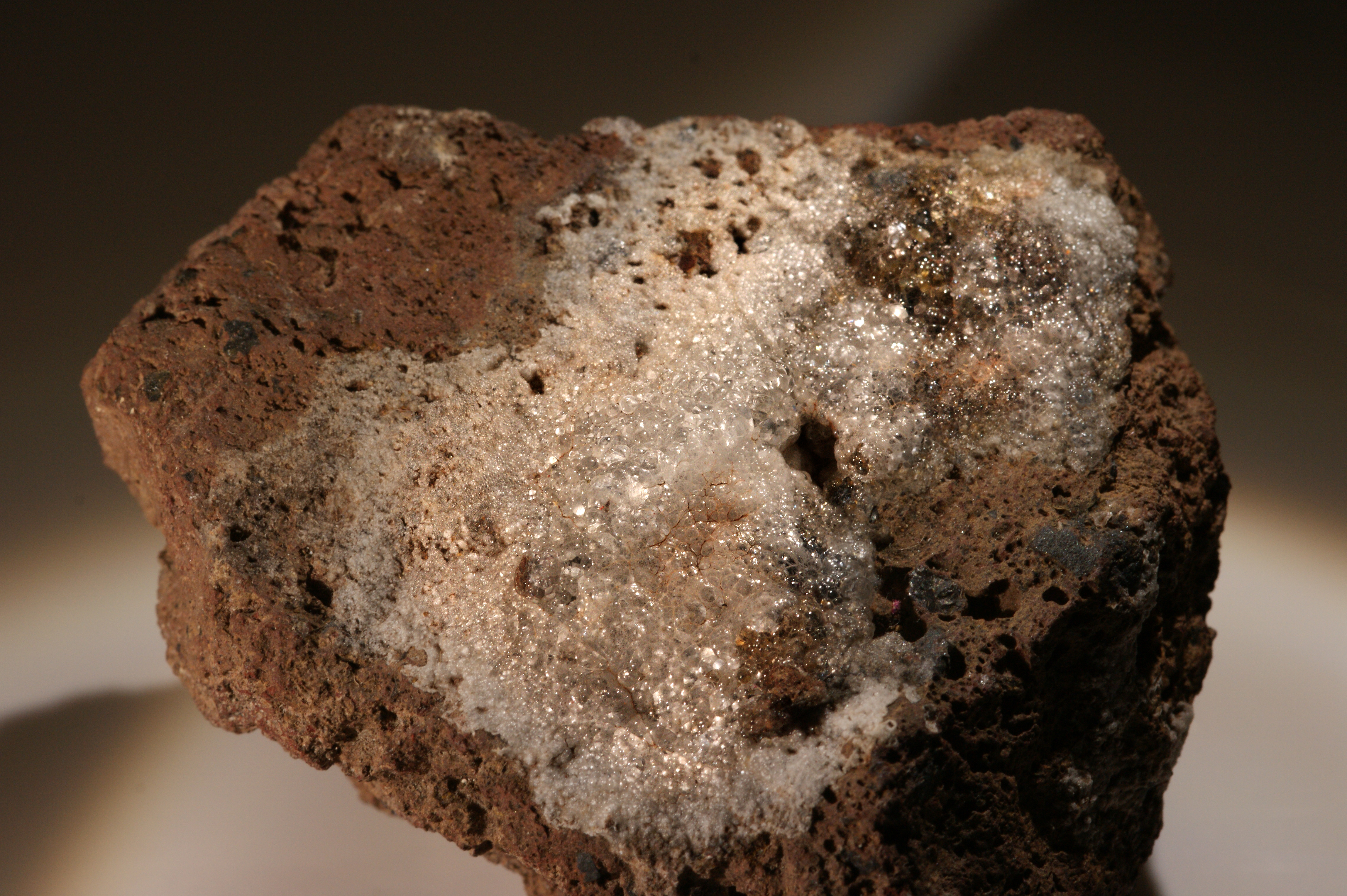 Opal An(Hyalite) - Puy de Corent - Soulasse - Puy de Dome - France (53x43mm)